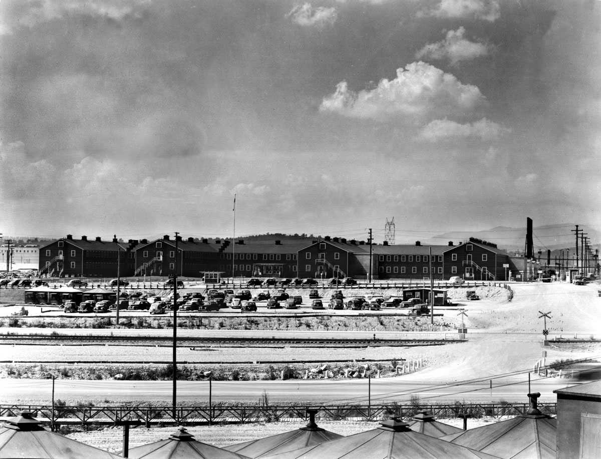 K-1001 Administration building. Part of the K-25 facility, it provided 2 acres (0.81 ha) of office space.